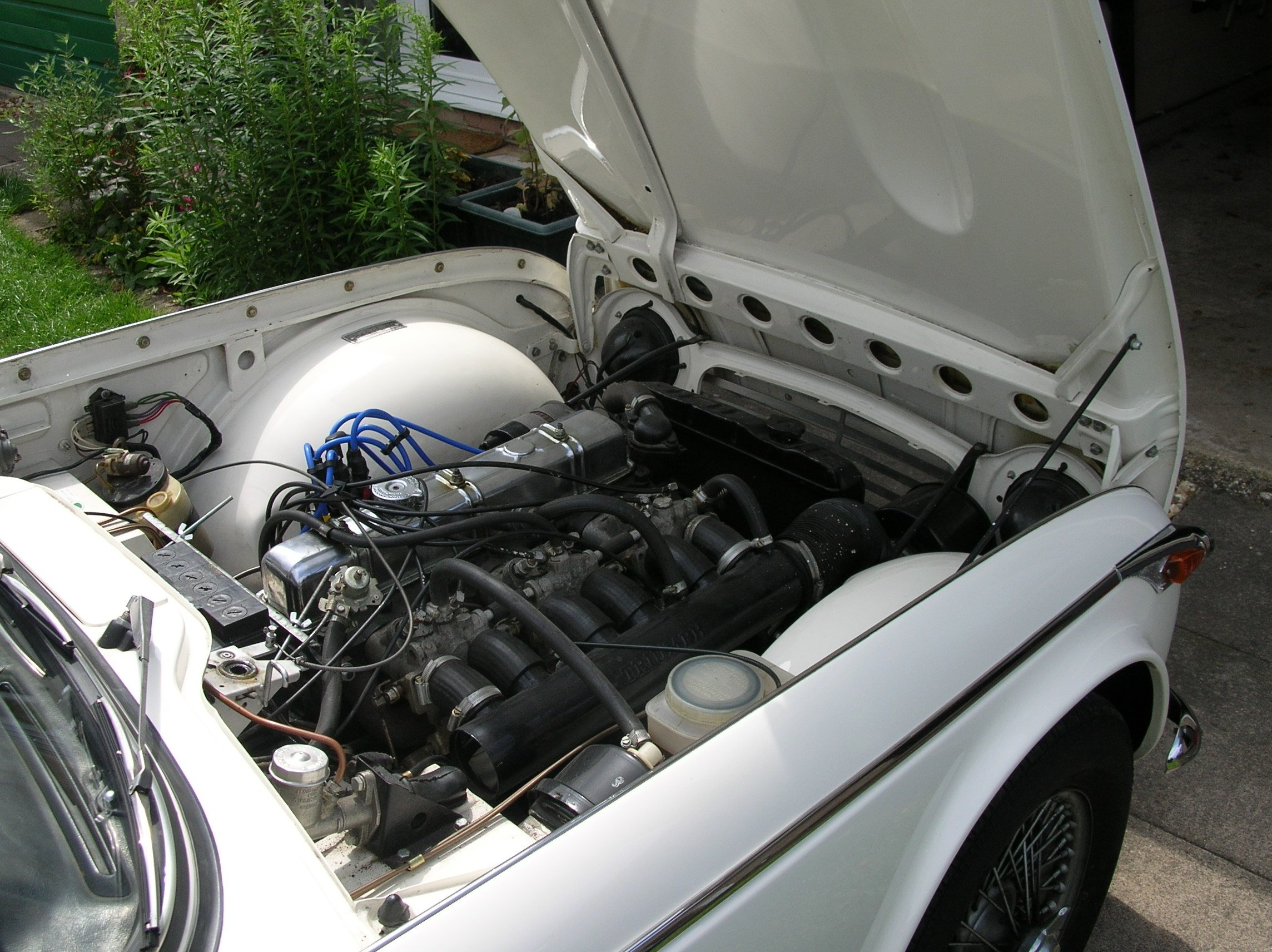 The engine bay of a 1969 Triumph TR5.